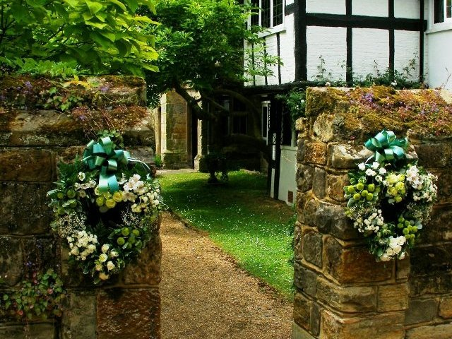 Gateway in to the garden of the Ockenden Manor Hotel